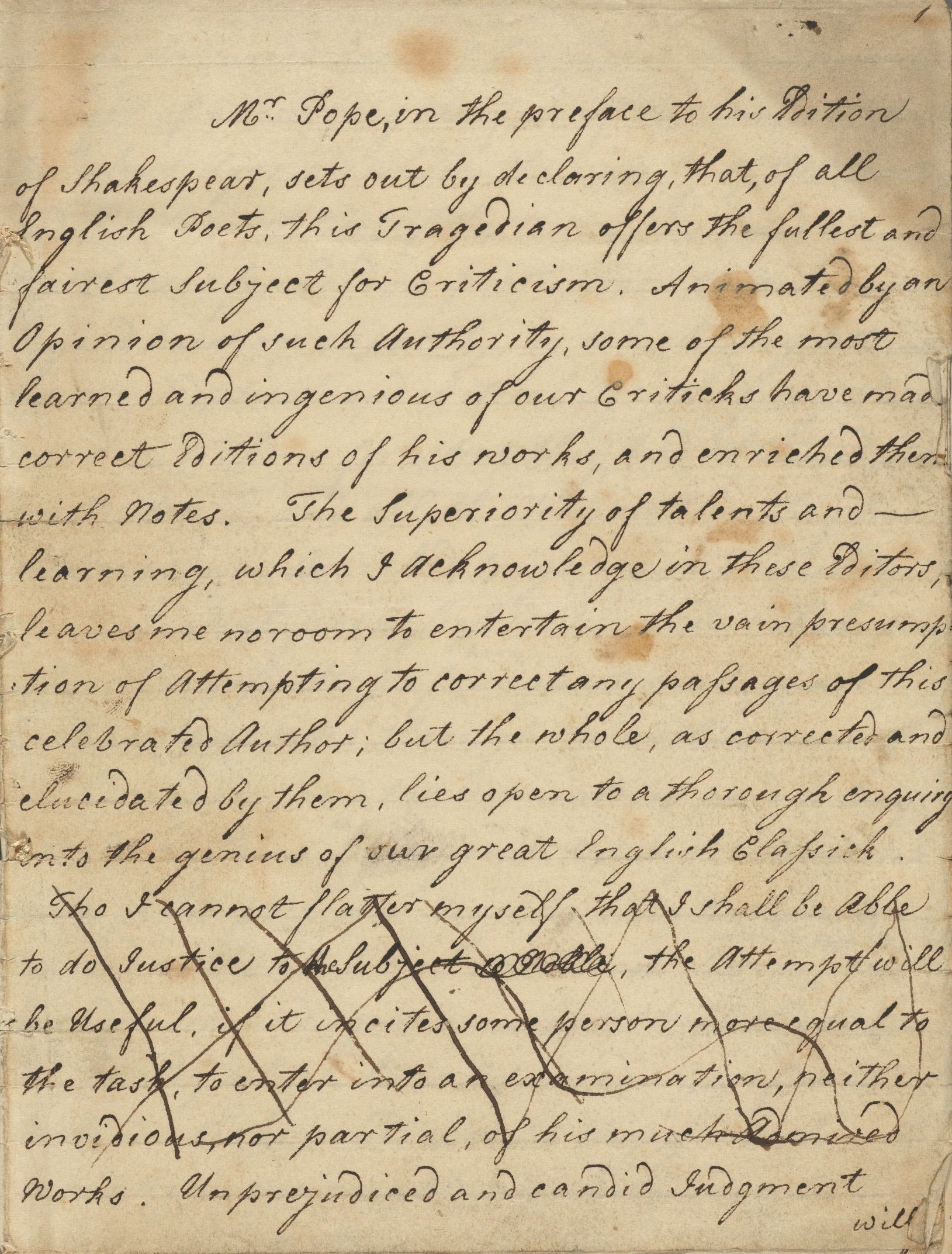 Page 1 of an autograph manuscript draft, 1769, of: An essay on the writings and genius of Shakespear by Elizabeth Montagu (1720-1800). MS Hyde 7 (15), Houghton Library, Harvard University